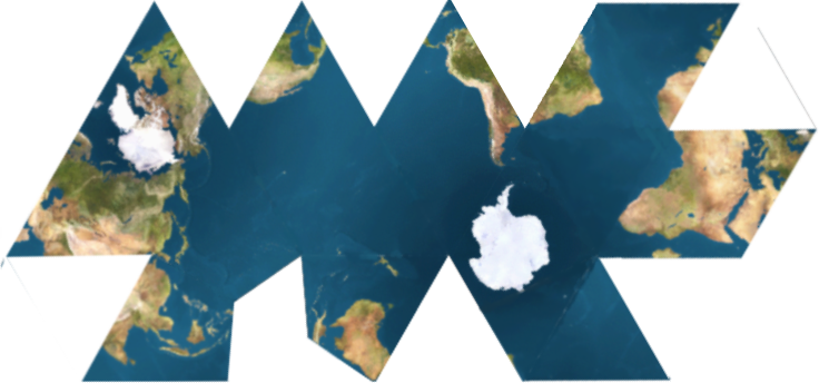 This is a variation of dymaxion net, showing the oceans as nearly continuous.